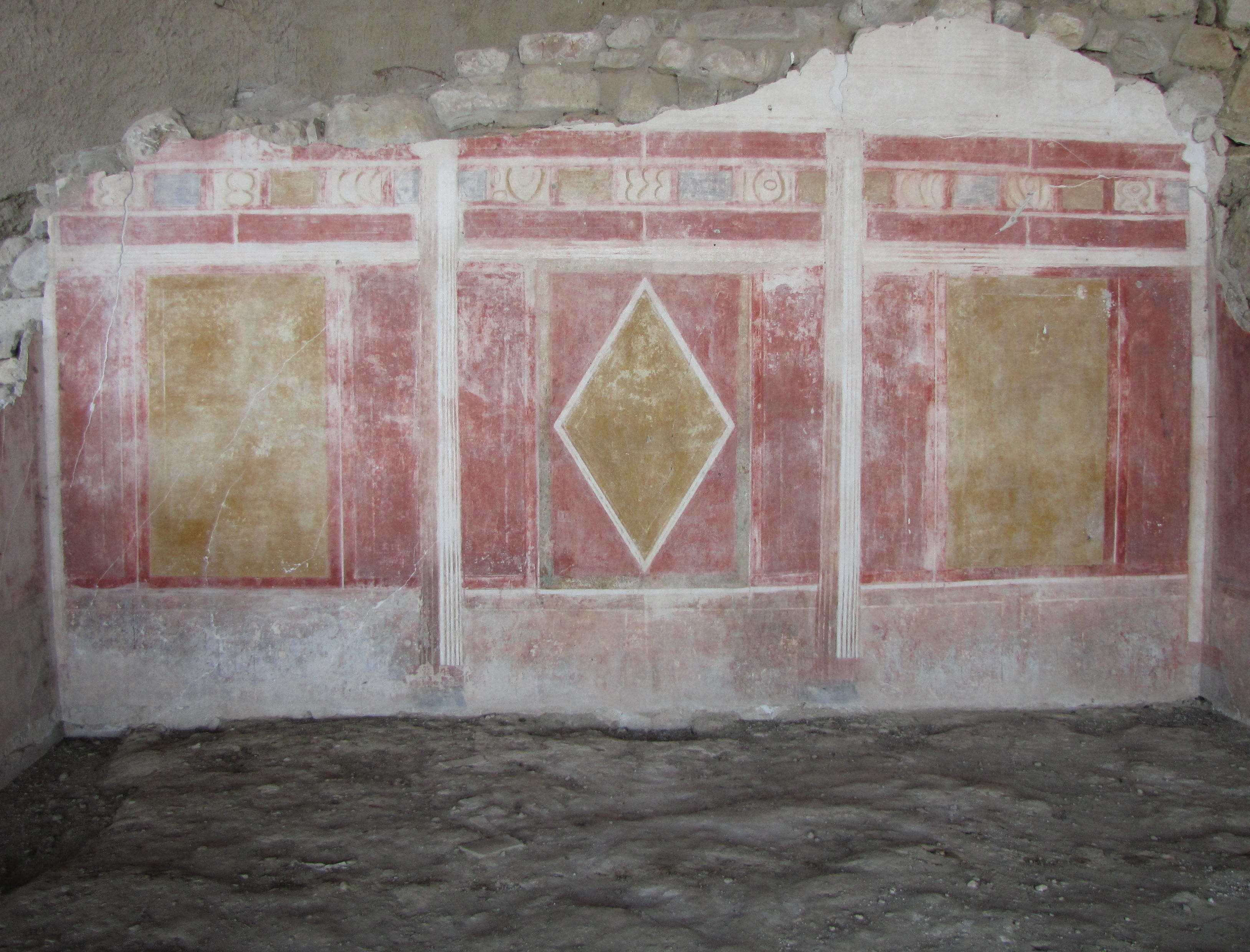 Amphipolis, Hellenistic House